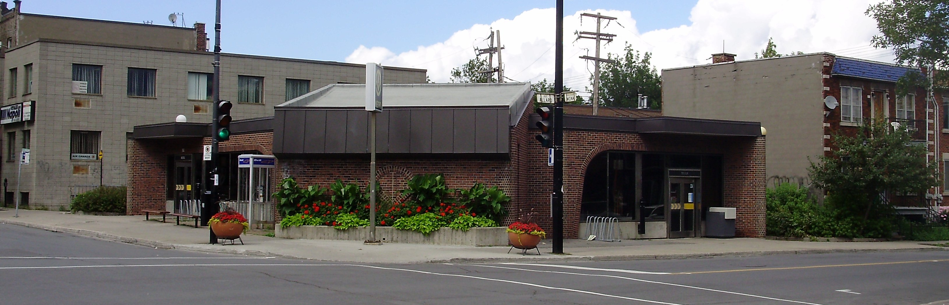 The Société de transport de Montréal's Monk metro station in Montreal, Quebec, Canada.